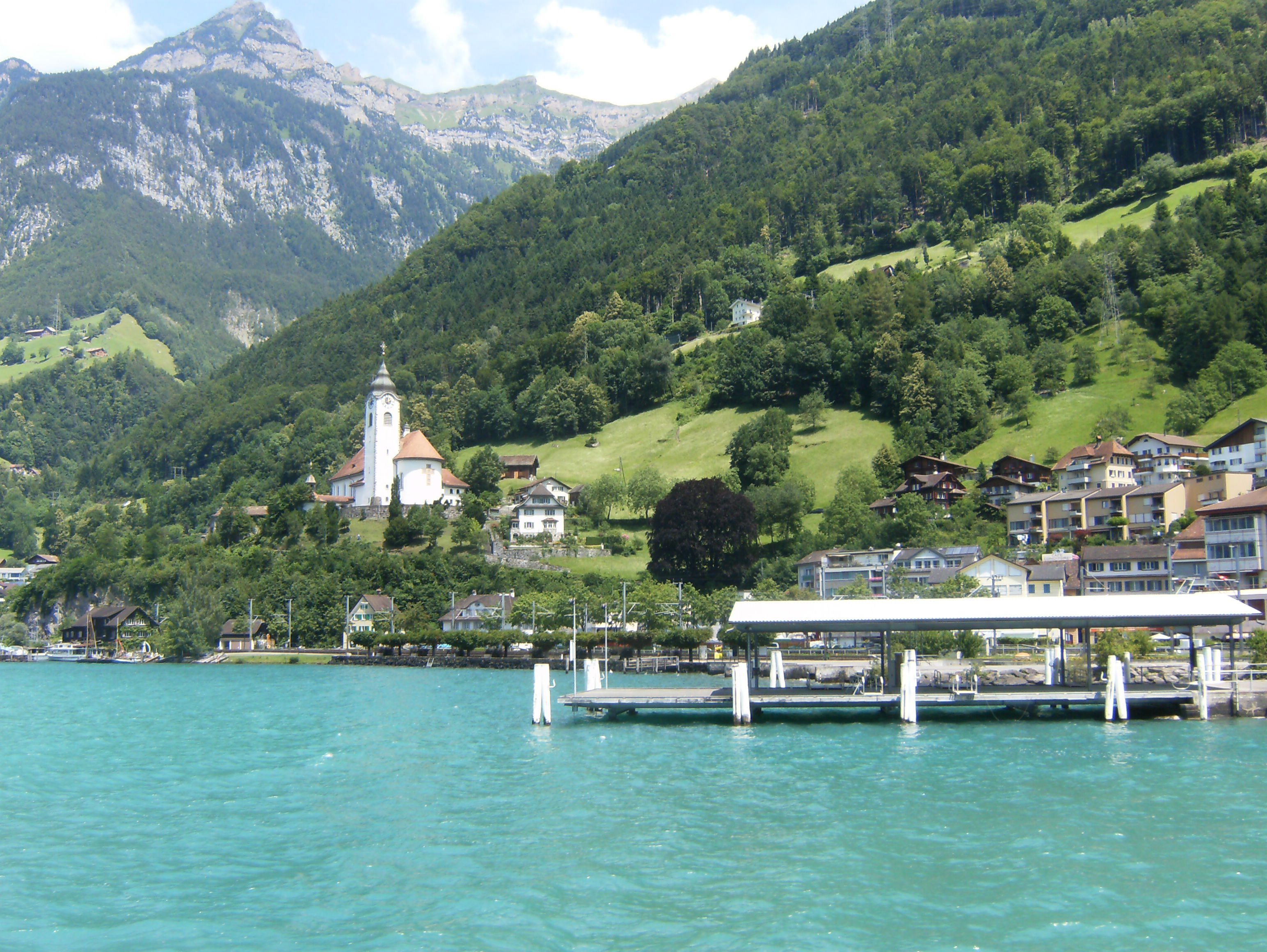 Flüelen UR